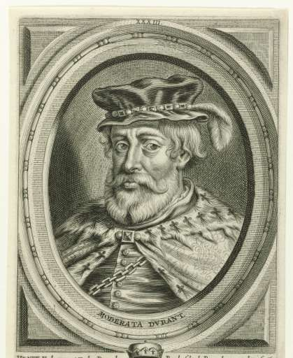 Henry II of Brabant, here numbered as V